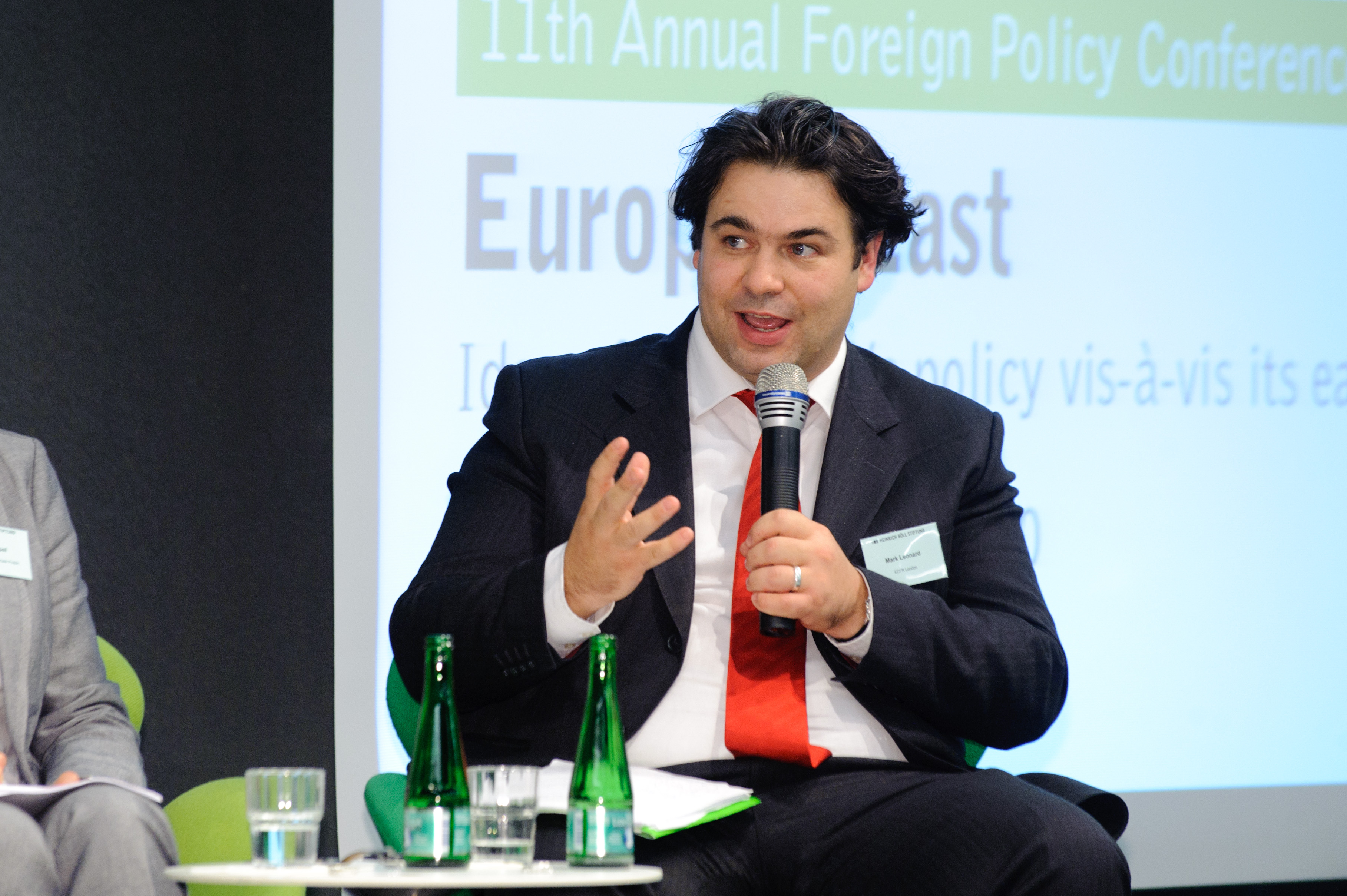 Mark Leonard (Direktor European Council on Foreign Relations, London) Foto: CC-BY-SA Stephan Röhl /